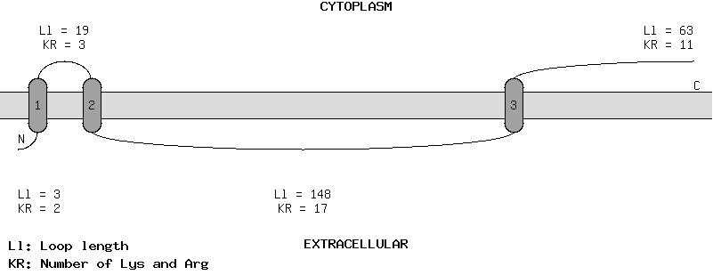 This shows the protein's interaction with the membrane of the Endoplasmic Reticulum.